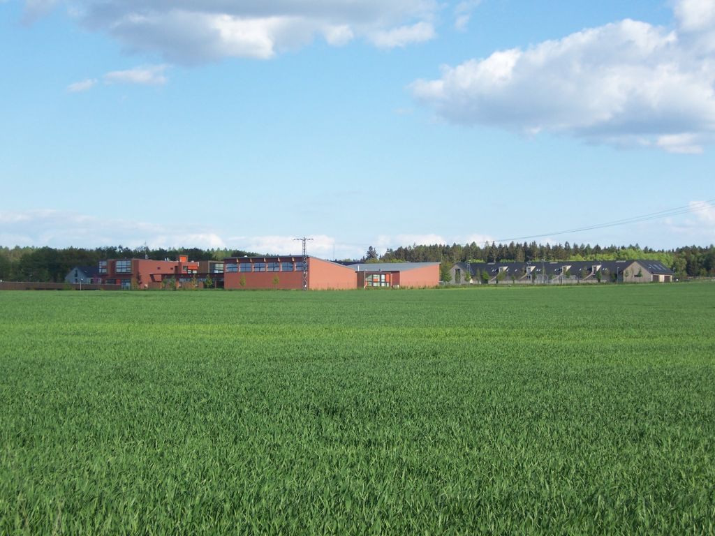 Babice (Prague-East District), Open Gate - Boarding School